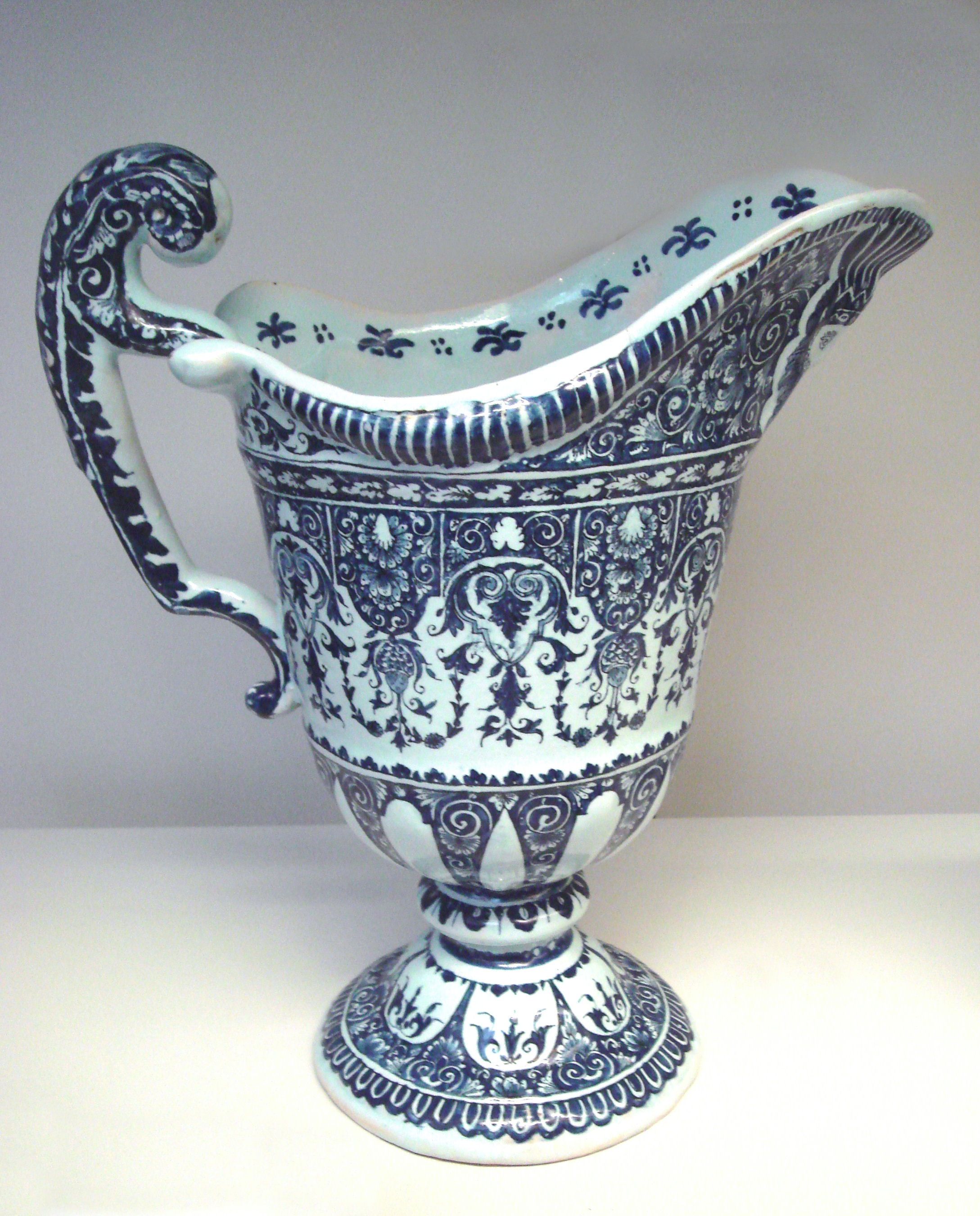 Rouen_faience_circa_1720